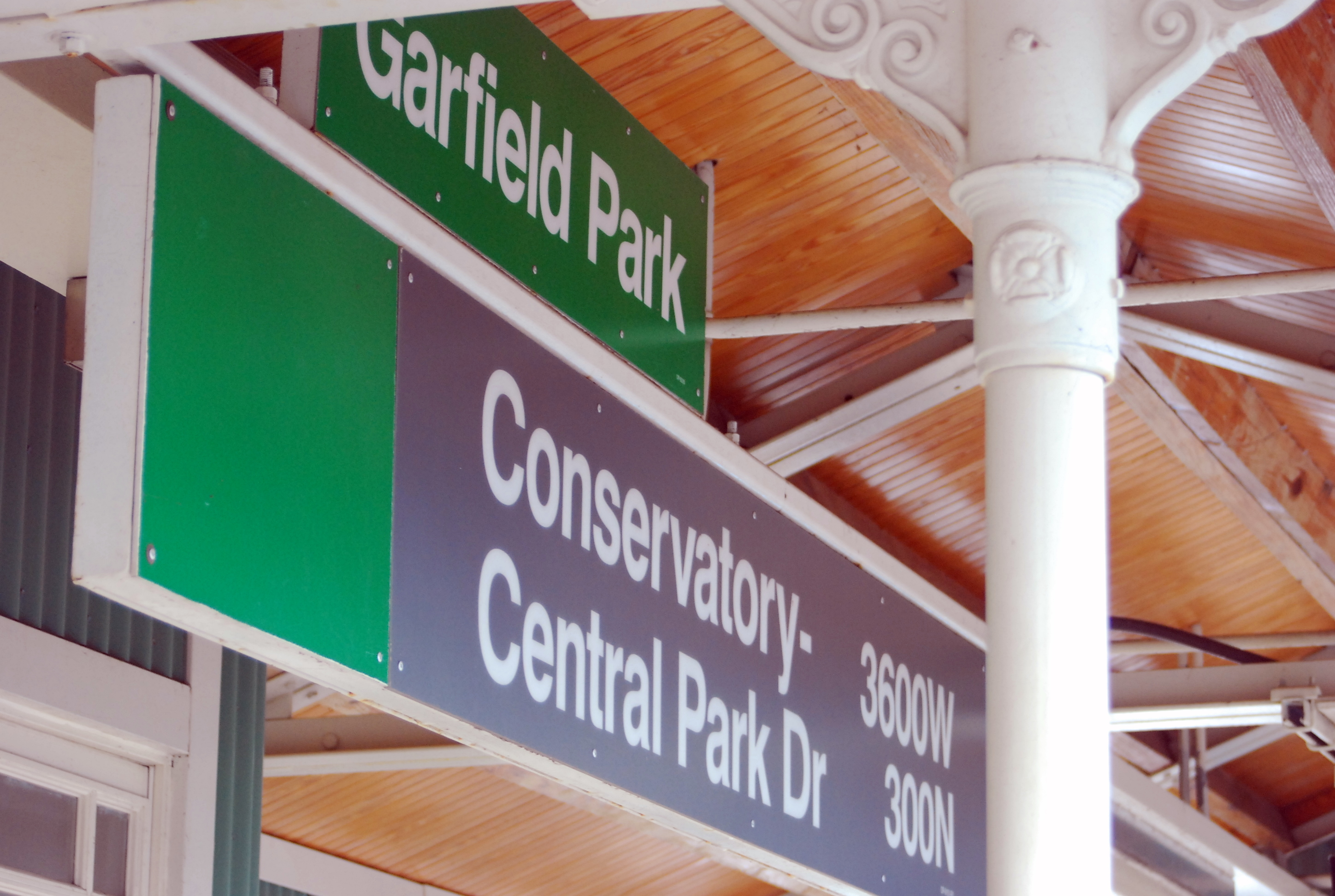 Garfield Park Conservatory CTA